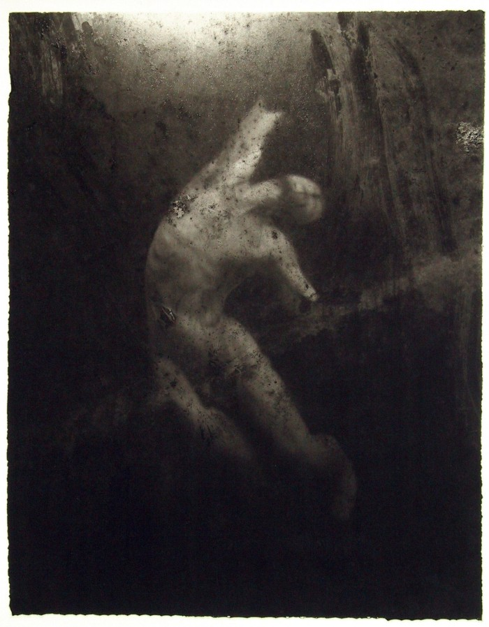 Photograph from Michal Macků